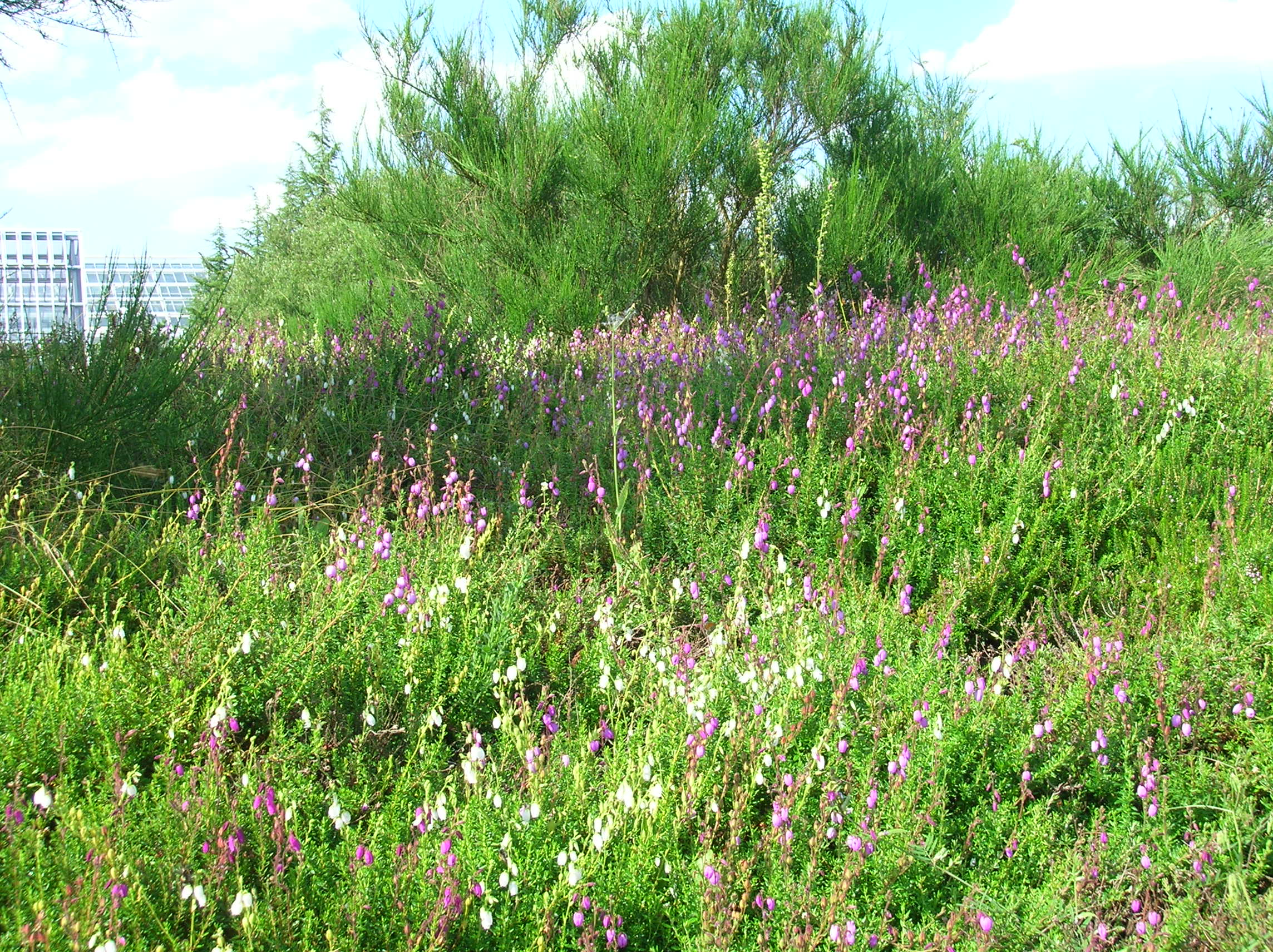 Daboecia cantabrica at the ÖBG Bayreuth